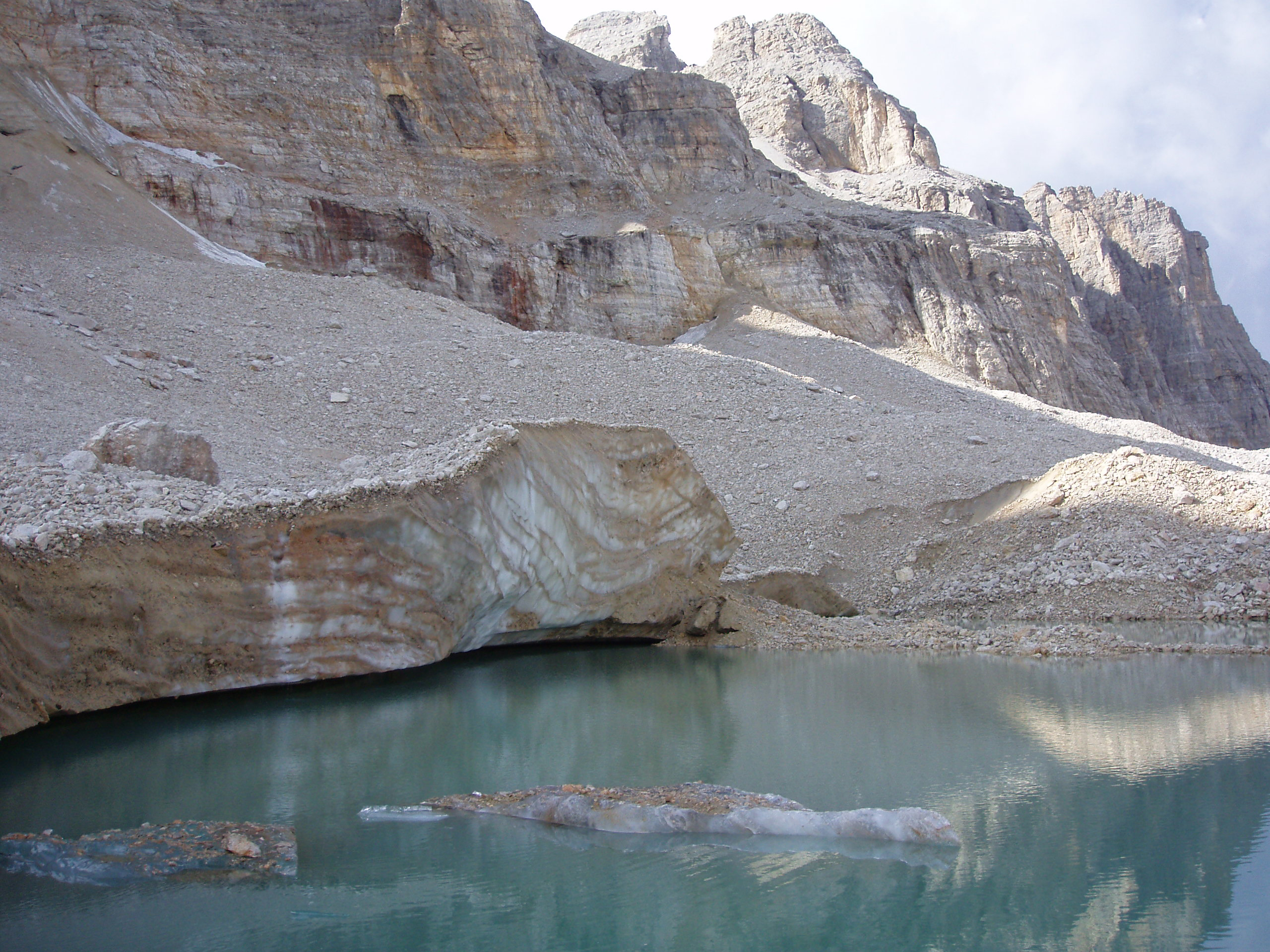 Lech dl Dragon in 2005. The lake has desappeared by now